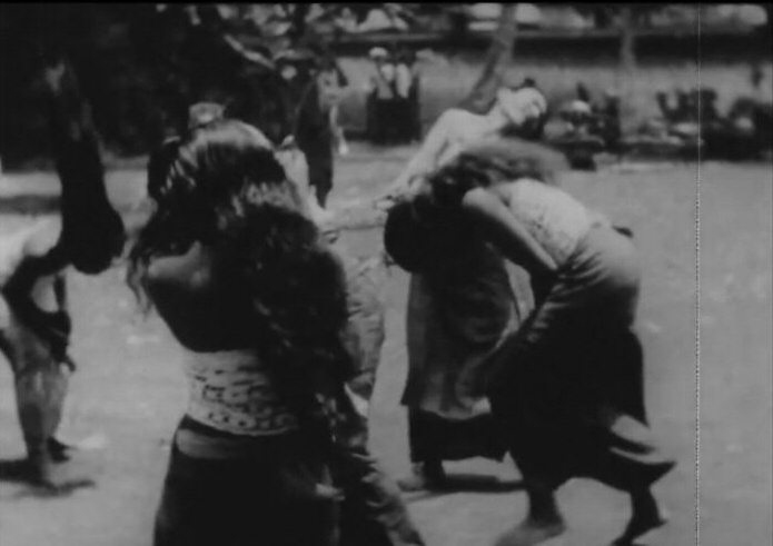 Still from pioneering anthropology documentary film Trance and Dance in Bali by Gregory Bateson and Margaret Mead, shot in the 1930s, released in 1952